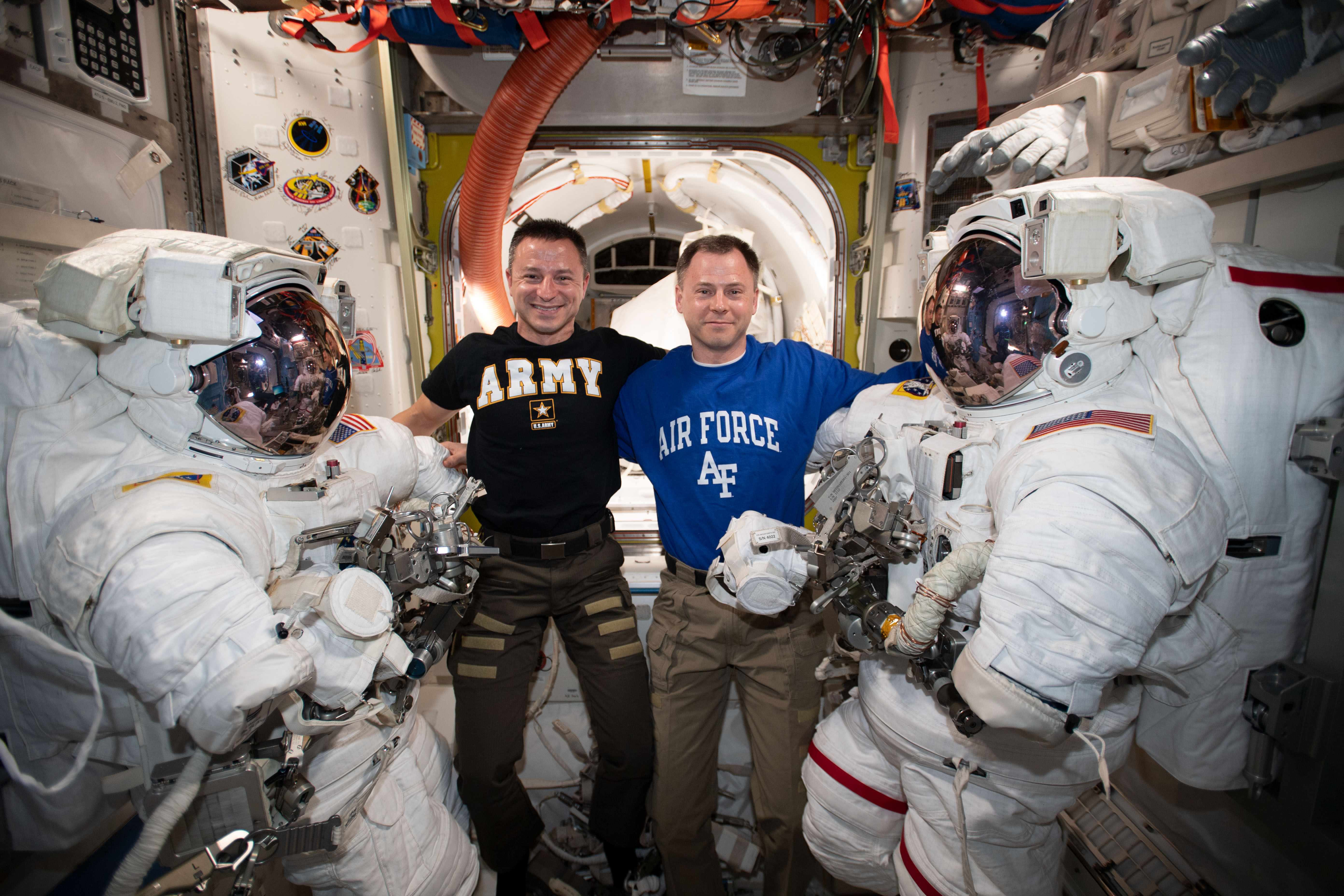 NASA astronauts Andrew Morgan and Nick Hague pose with the spacesuits they will wear during a six-and-a-half-hour spacewalk to install the International Docking Adapter-3 that will accommodate the future arrivals of Boeing CST-100 Starliner and SpaceX Crew Dragon commercial crew spacecraft.